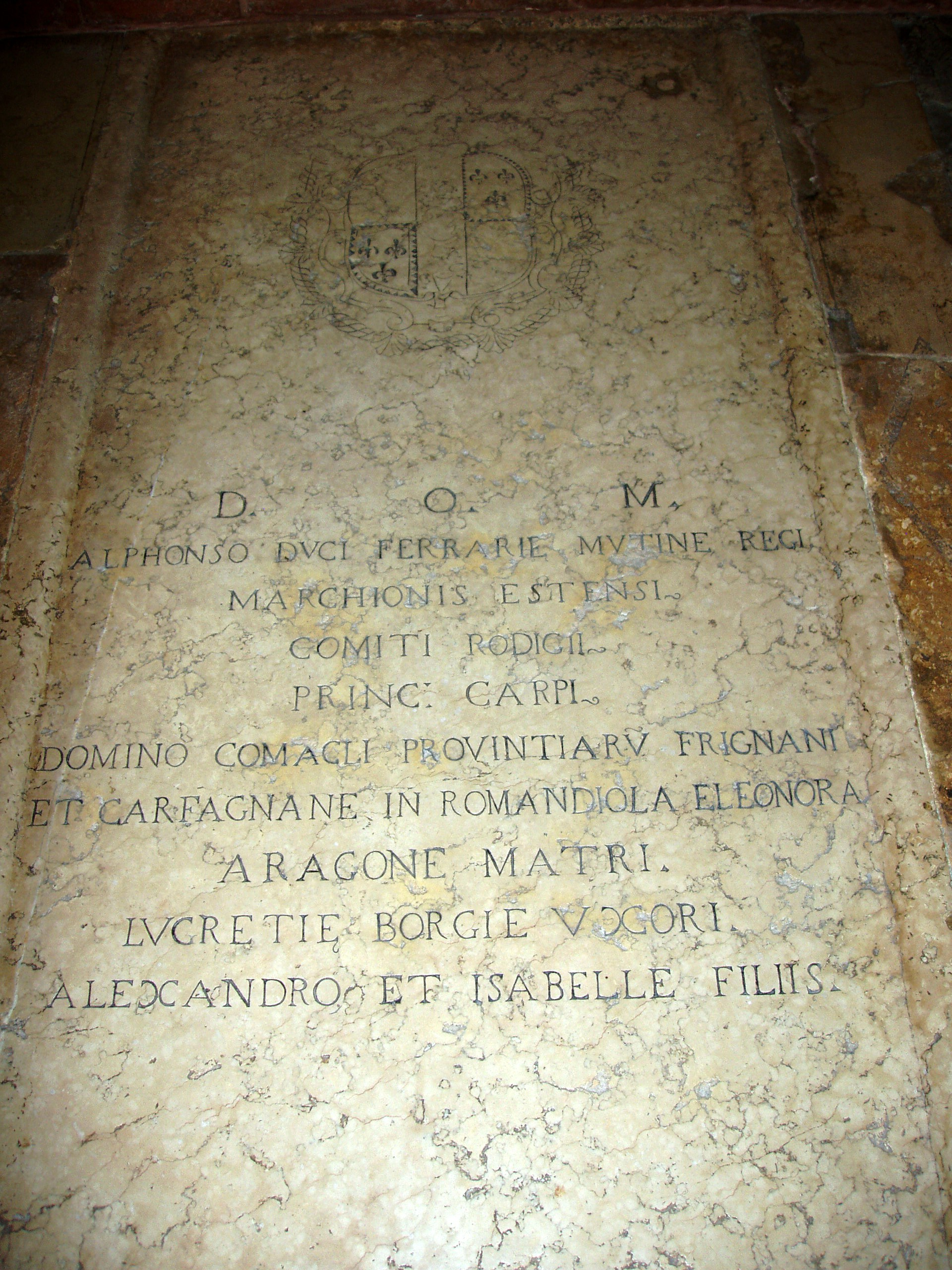 Grave of Duke Alfonso I d'Este, Lucretia Borgia, etc. - Ferrara, Italy.